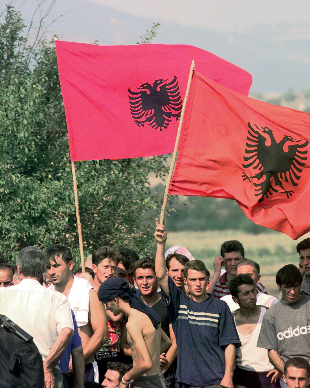 Albanian demonstrators with Albanian National Flags, near the town of Domorovce, Kosovo, prepare to protest as long as Serbians keep the roads blocked. After two Serbian men disappeared, the Serbians believed the Albanians abducted the men and began to make threats and road obstructions to stop the Albanians from traveling safely through town. Albanians began to form a mob to confront the Serbians until United States Army and Russian Kosovo Force (KFOR) troops made a wall between the opposing sides. Task Force Falcon, Operation Joint Guardian, 14 August 2000.